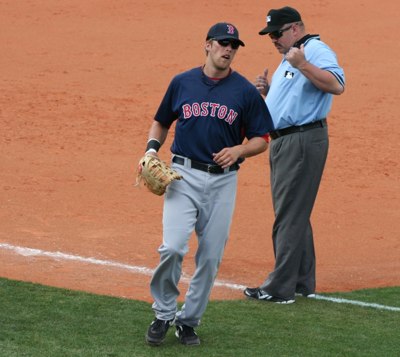 Description Lars Anderson DateSourceI created this work entirely by myself.AuthorHappyHarvick2962 (talk) 01:12, 2 April 2009 . . HappyHarvick2962 . . 800×713 (377 KB) Lars Anderson